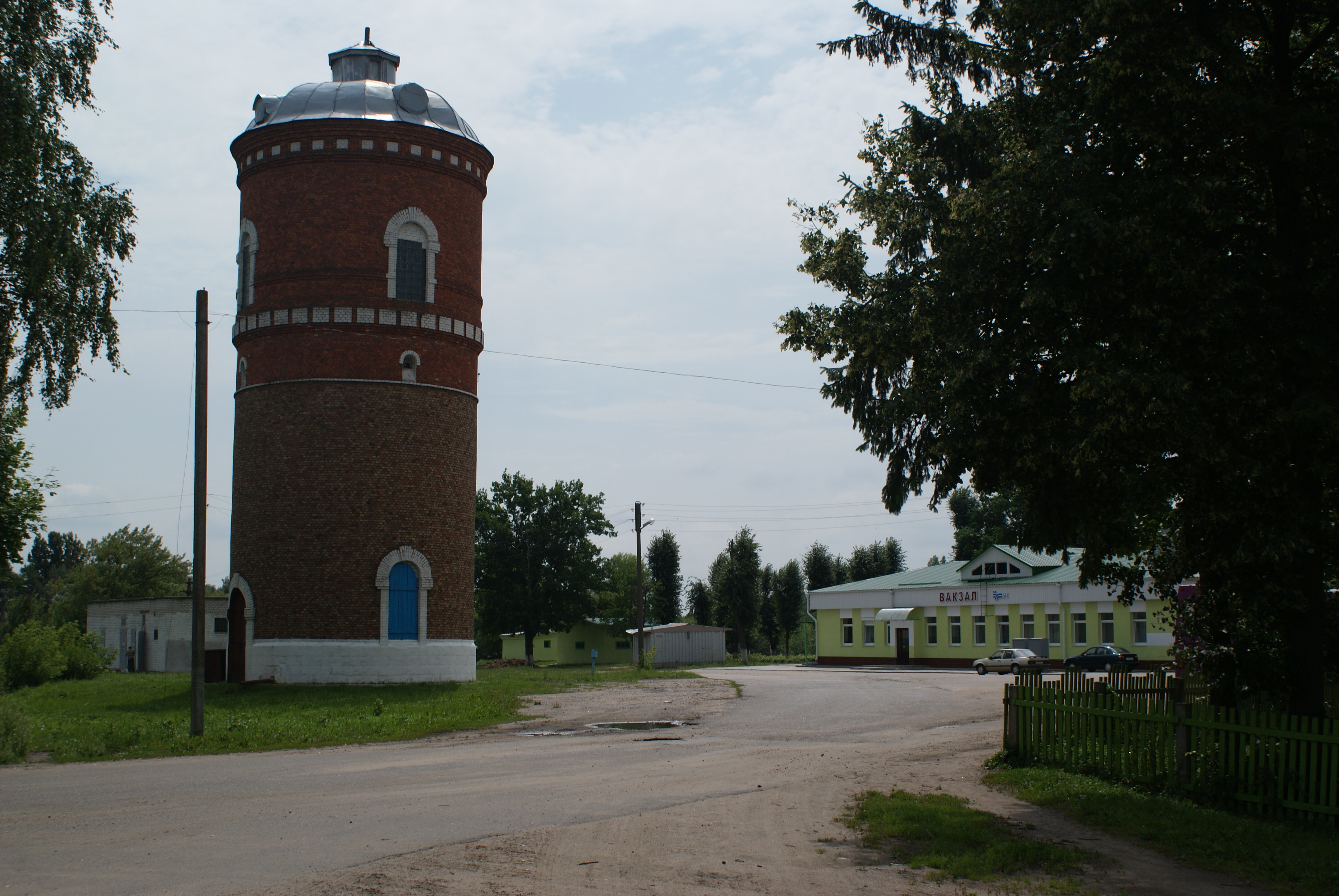 Chavusy